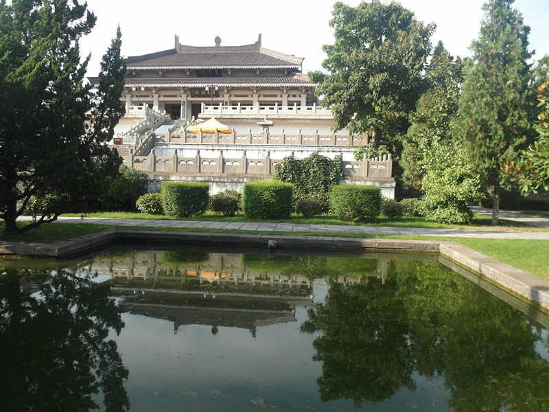 Temple of the Flame Emperor located in Baoji.